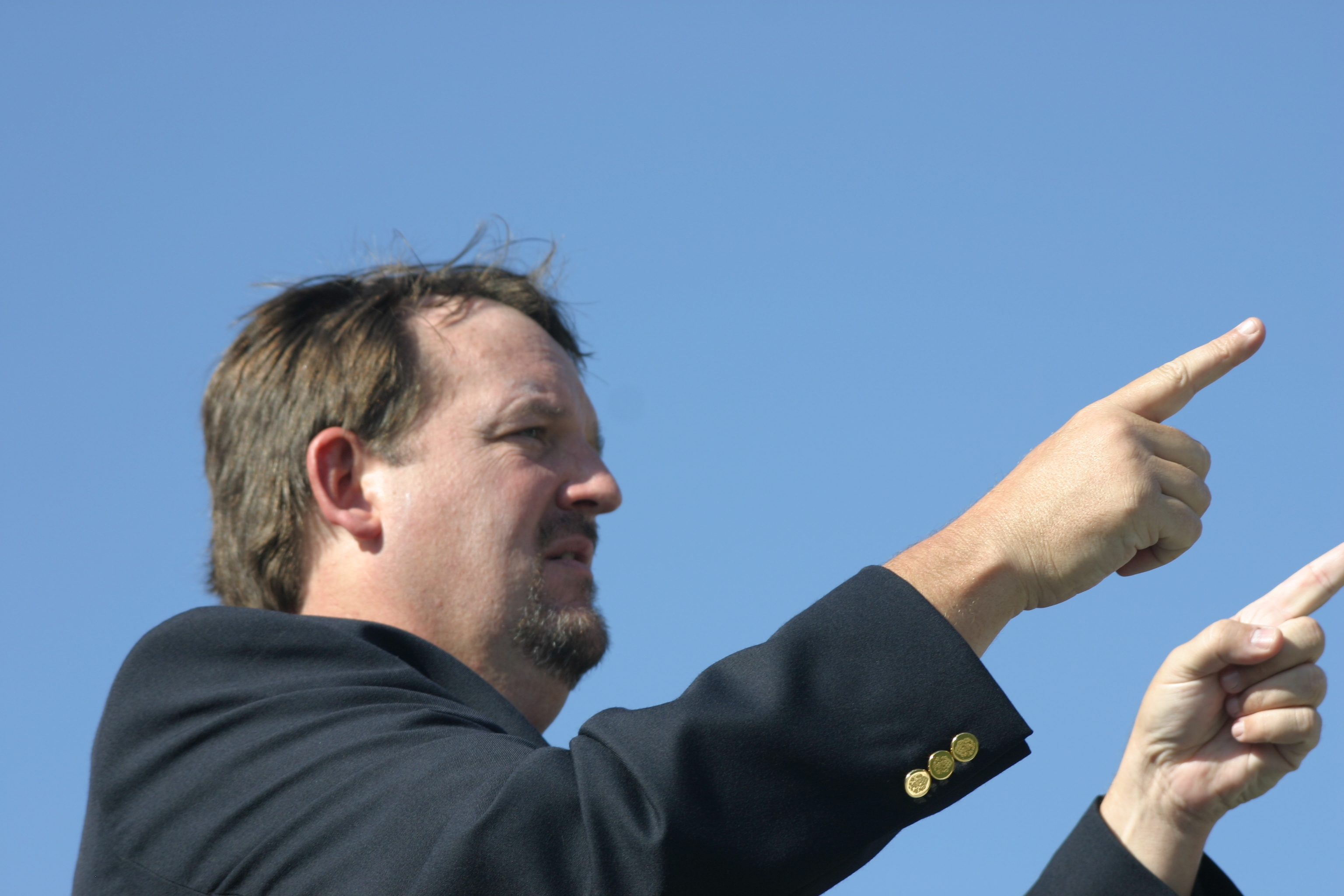 SMU Mustang Band director Don Hopkins directs the band, November 2005